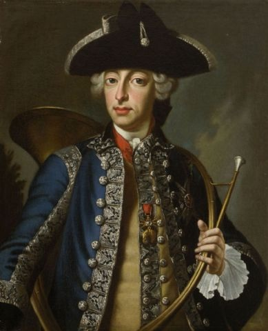 Portrait of Maximilian III Joseph, Elector of Bavaria (1727-1777) in Hunting Costume